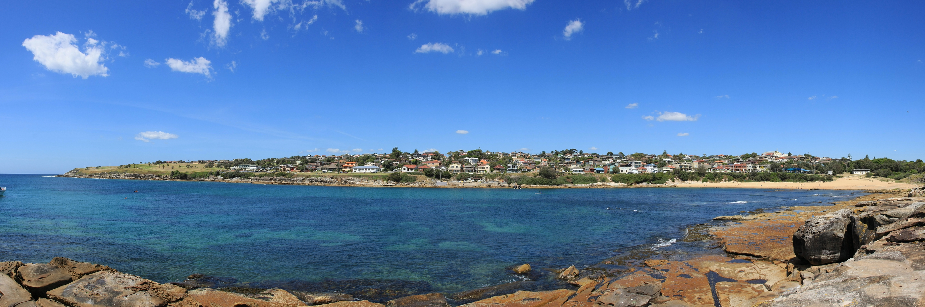 Malabar, New South Wales